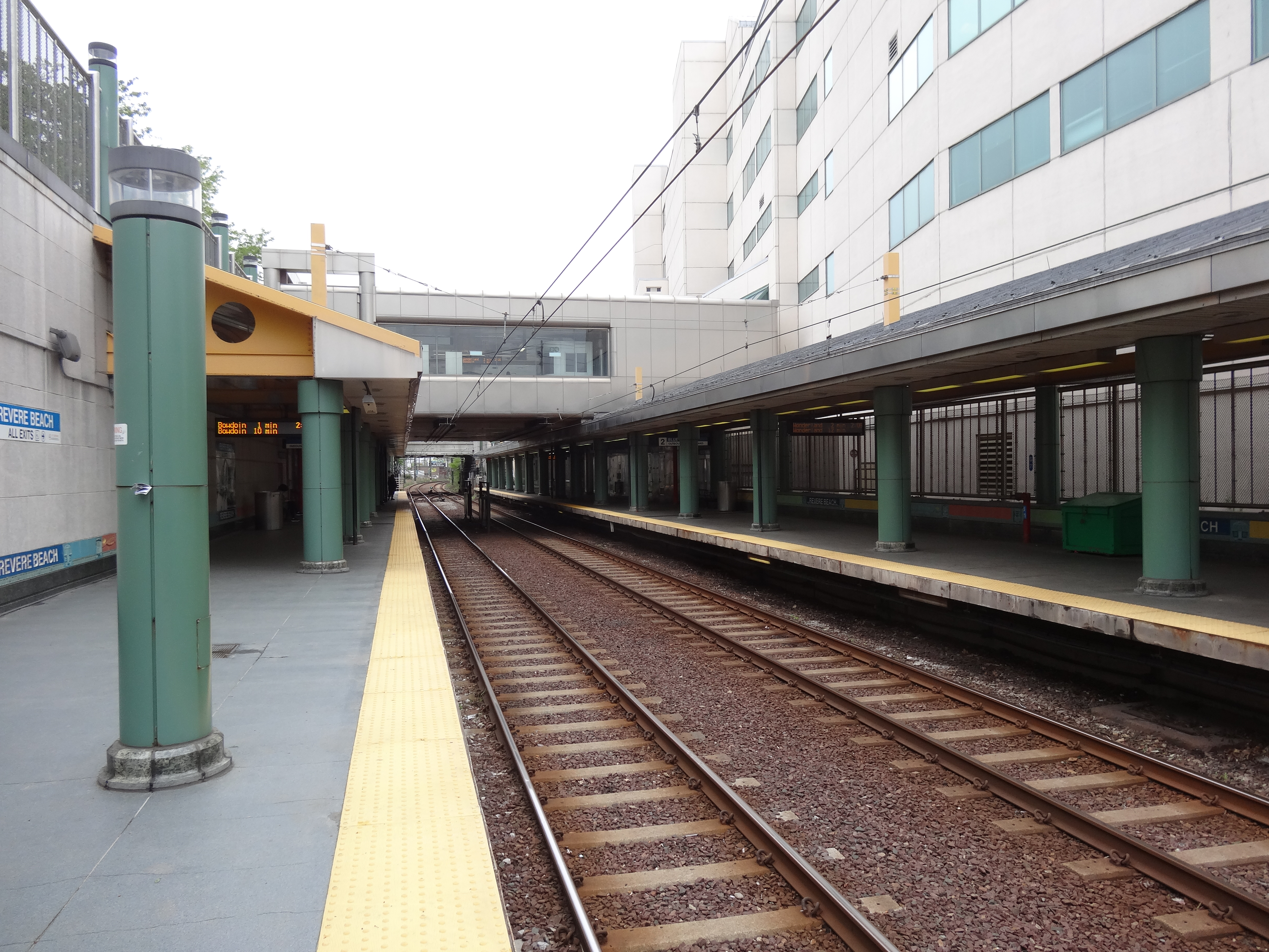 The inbound Blue Line platform at the Revere Beach station, looking outbound towards Wonderland, with a view of the pedestrian bridge connecting the two side platforms.